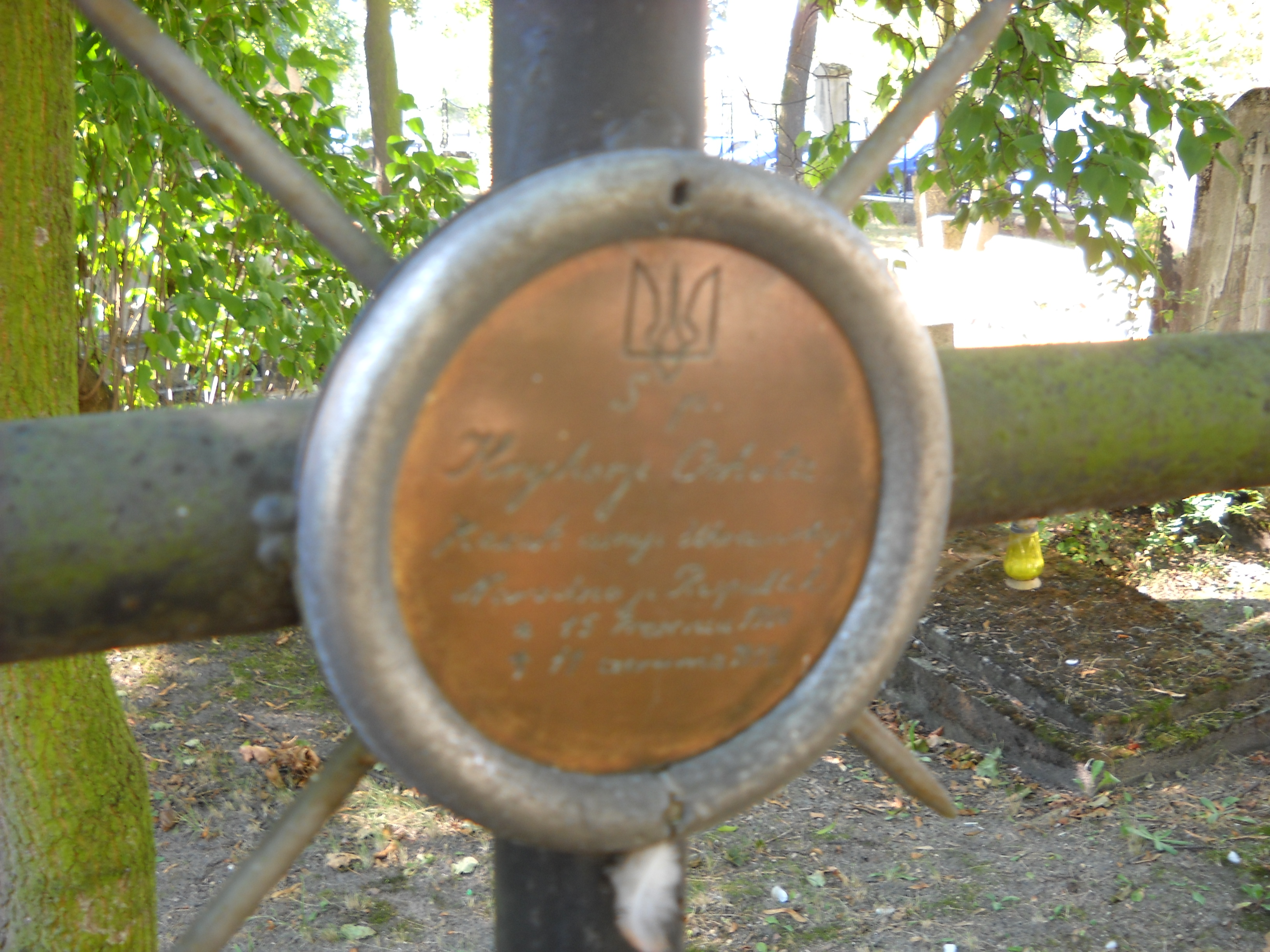 Grave of a soldier of Ukrainian National Republic with Ukrainian national emblem visible. Toruń, military cemetery.